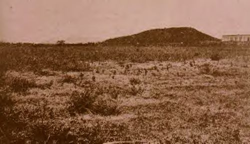 Battlefield of Yauco, Puerto Rico